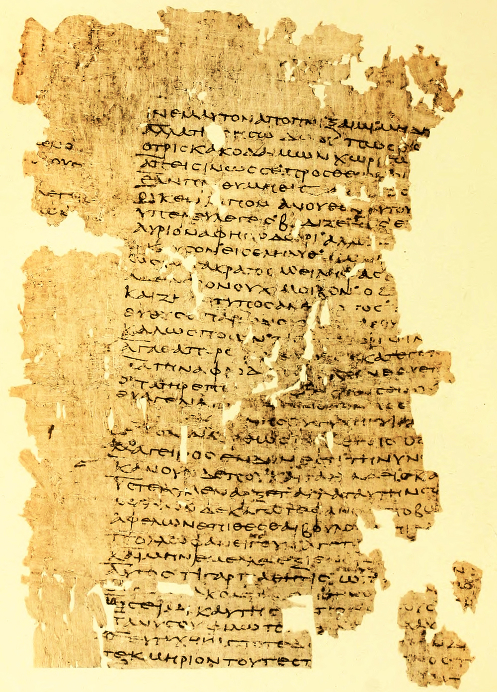 P.Oxy. II 211: Menander, Periciromene 976–1008